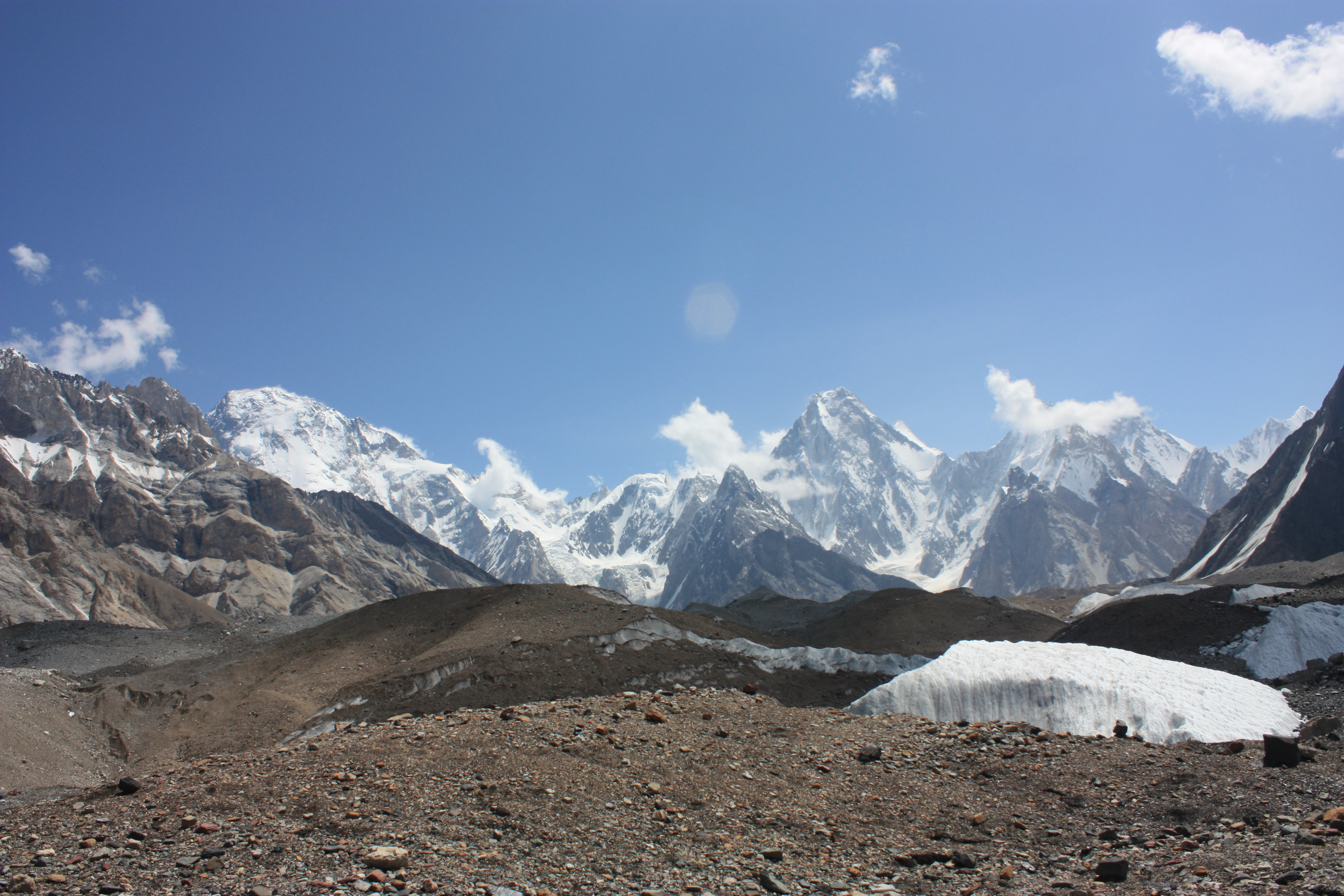 Baltoro glacier with Broad Peak (left) and Gasherbrum IV (centre right) in the background